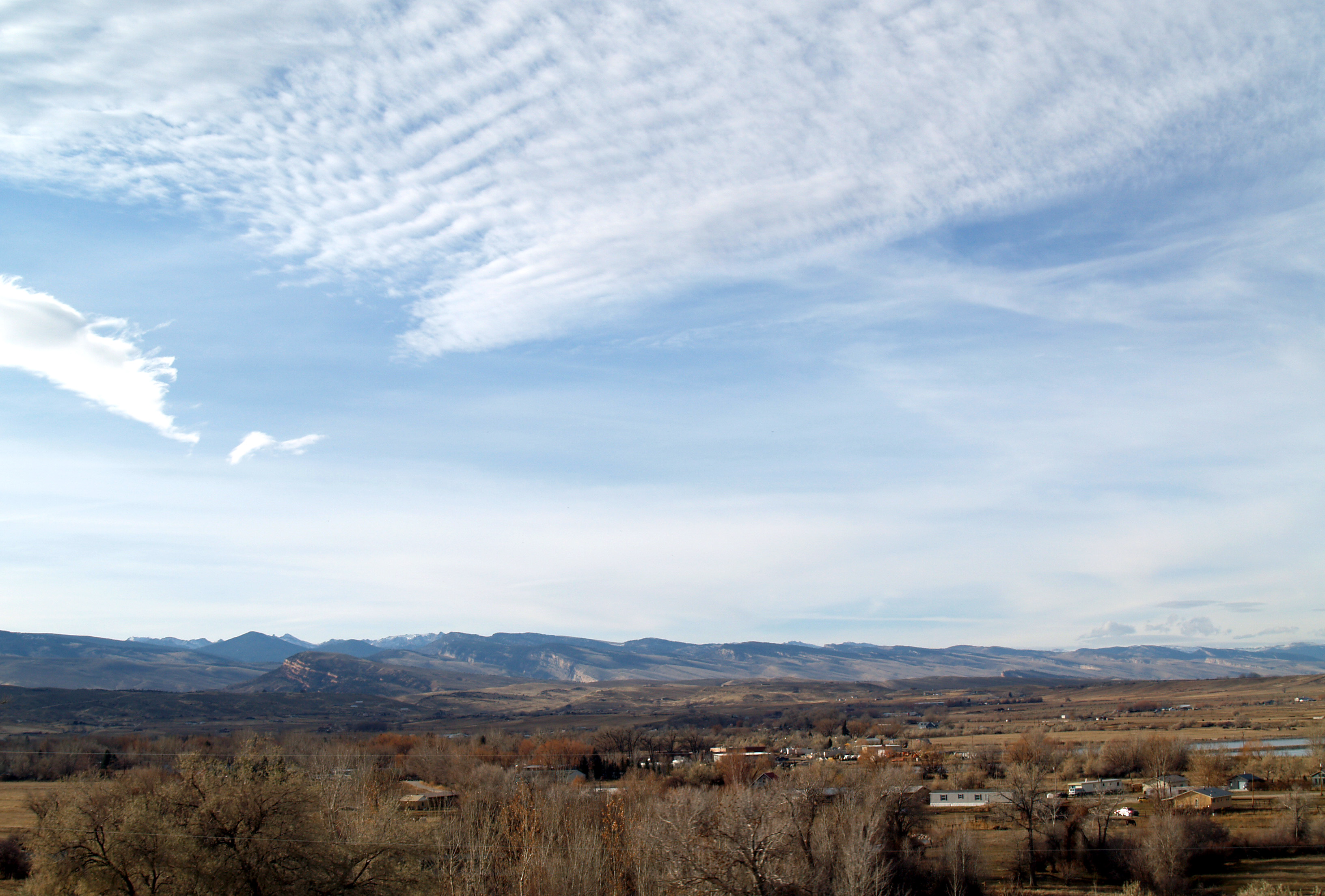 Suburbs of Lander, WY